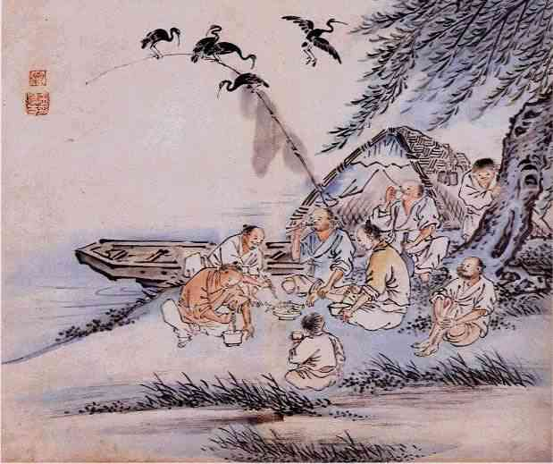 Gangbyeon hoeeum (literally "Eating hoe near a river") drawn by Kim Deuksin (1754 - 1822) depicts Korean people gathered to eat saengseon hoe (raw fish dish) after fishing. It is stored at Gansong Art Museum, Seoungbuk-gu, Seoul, South Korea